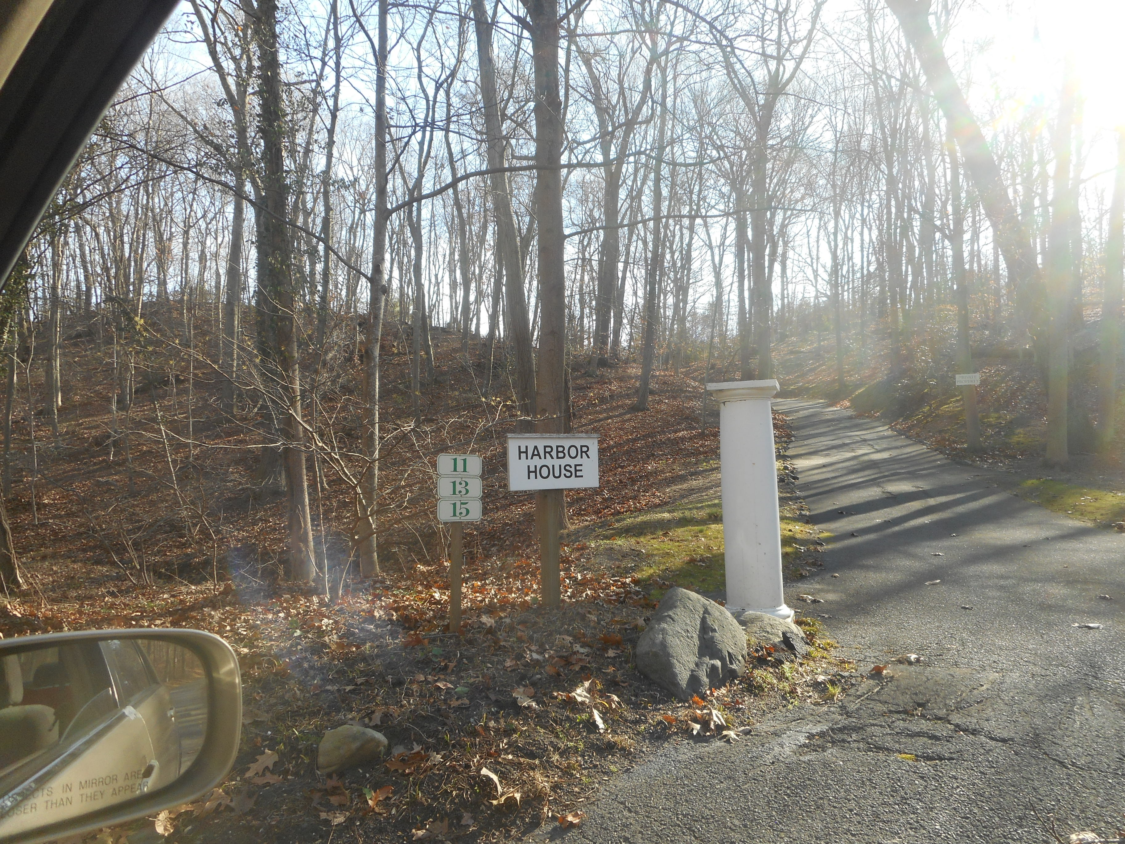 Driveway leading to Harbor House, also known as the George C. Case Estate, off of Spring Hollow Road in Nissequogue, New York. The house has been on the National Register of Historic Places since August 9, 1993, and is somewhere up at the top of this private driveway.